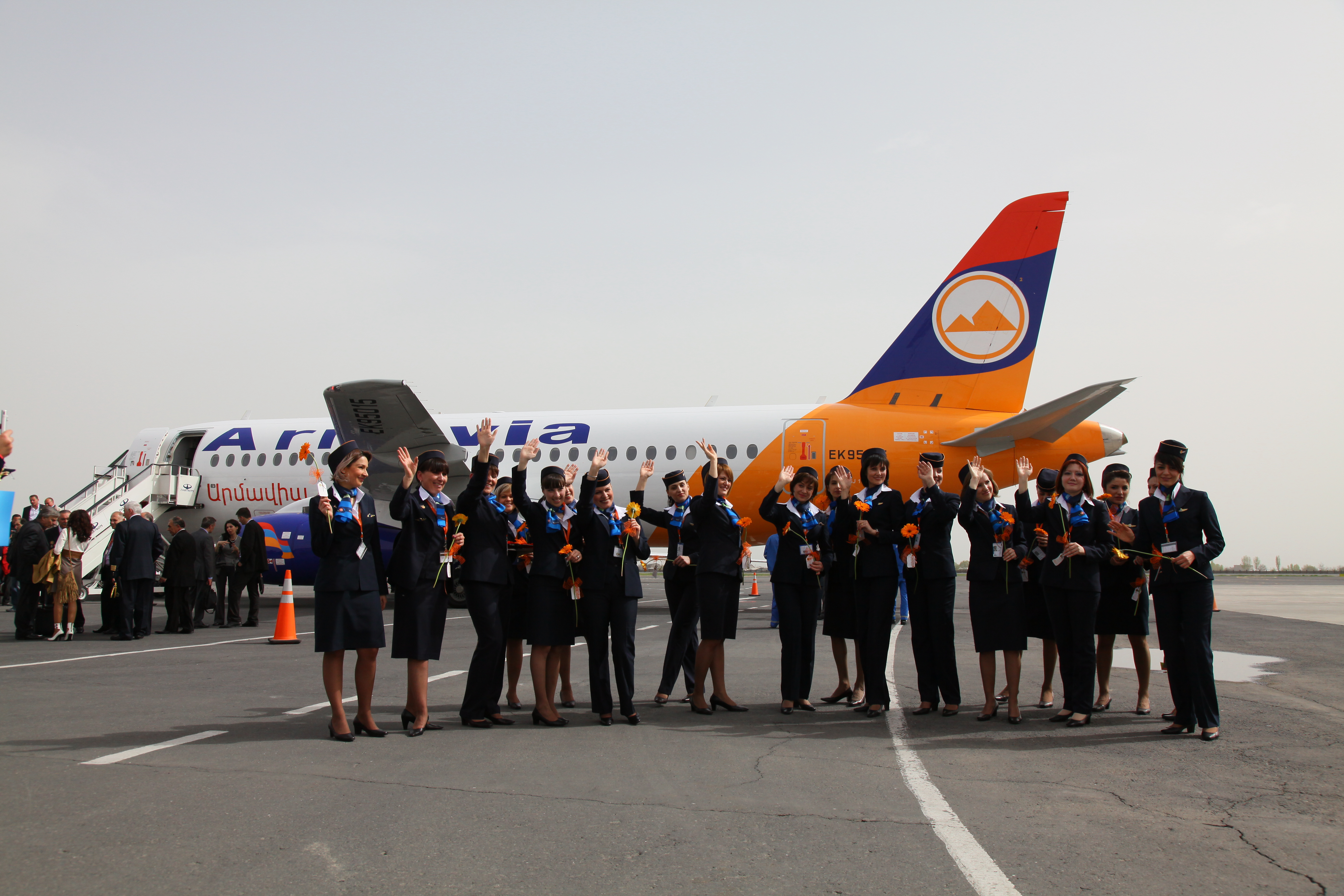 April 19, 2011. Delivery ceremony of the first production Sukhoi Superjet 100 SN 95007 to Armenian aircompany “Armavia” took place in Zvartnots airport. Yerevan (Armenia) Read the news here